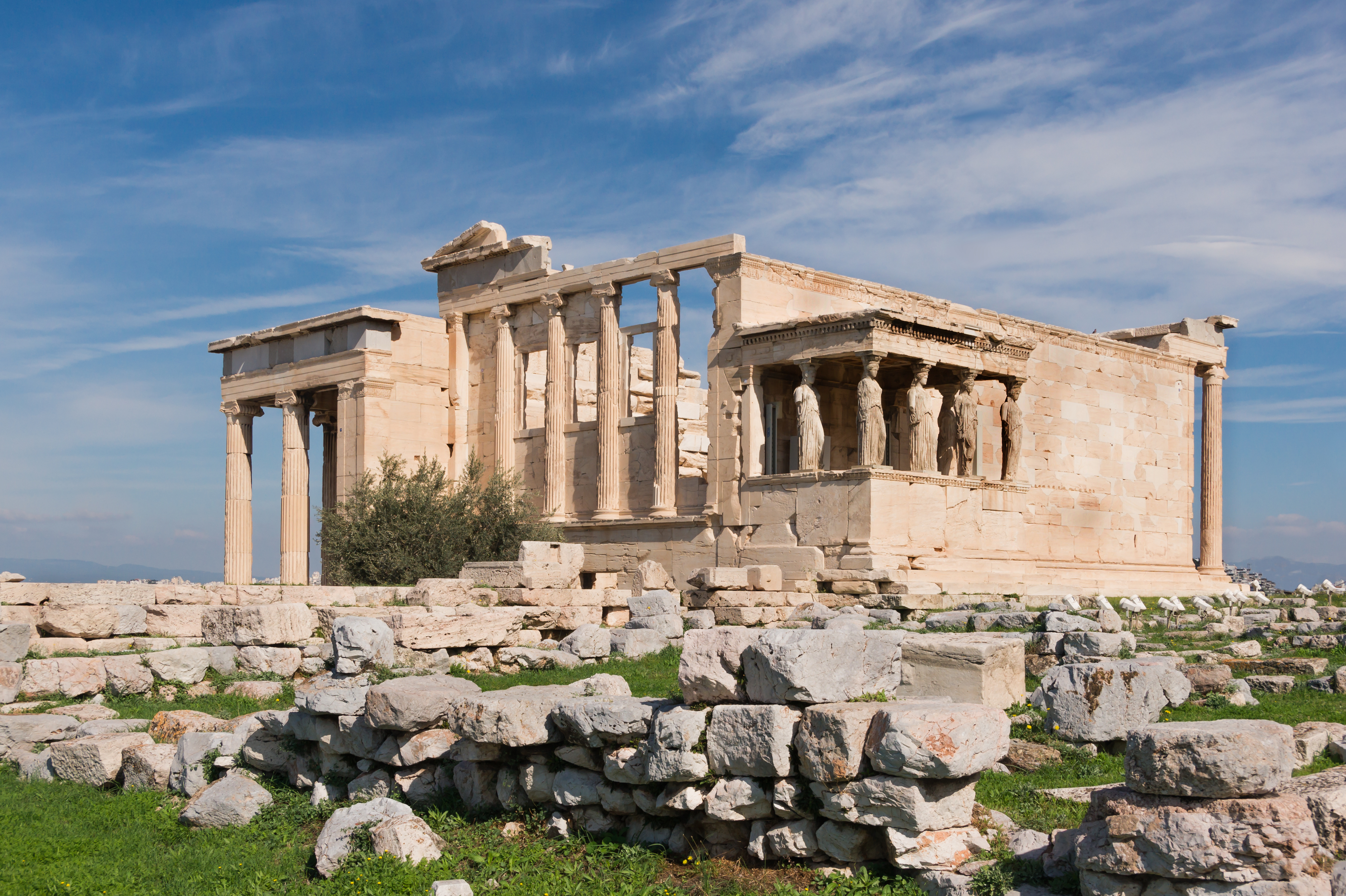 The Erechtheum, western side, Acropolis, Athens, Greece.